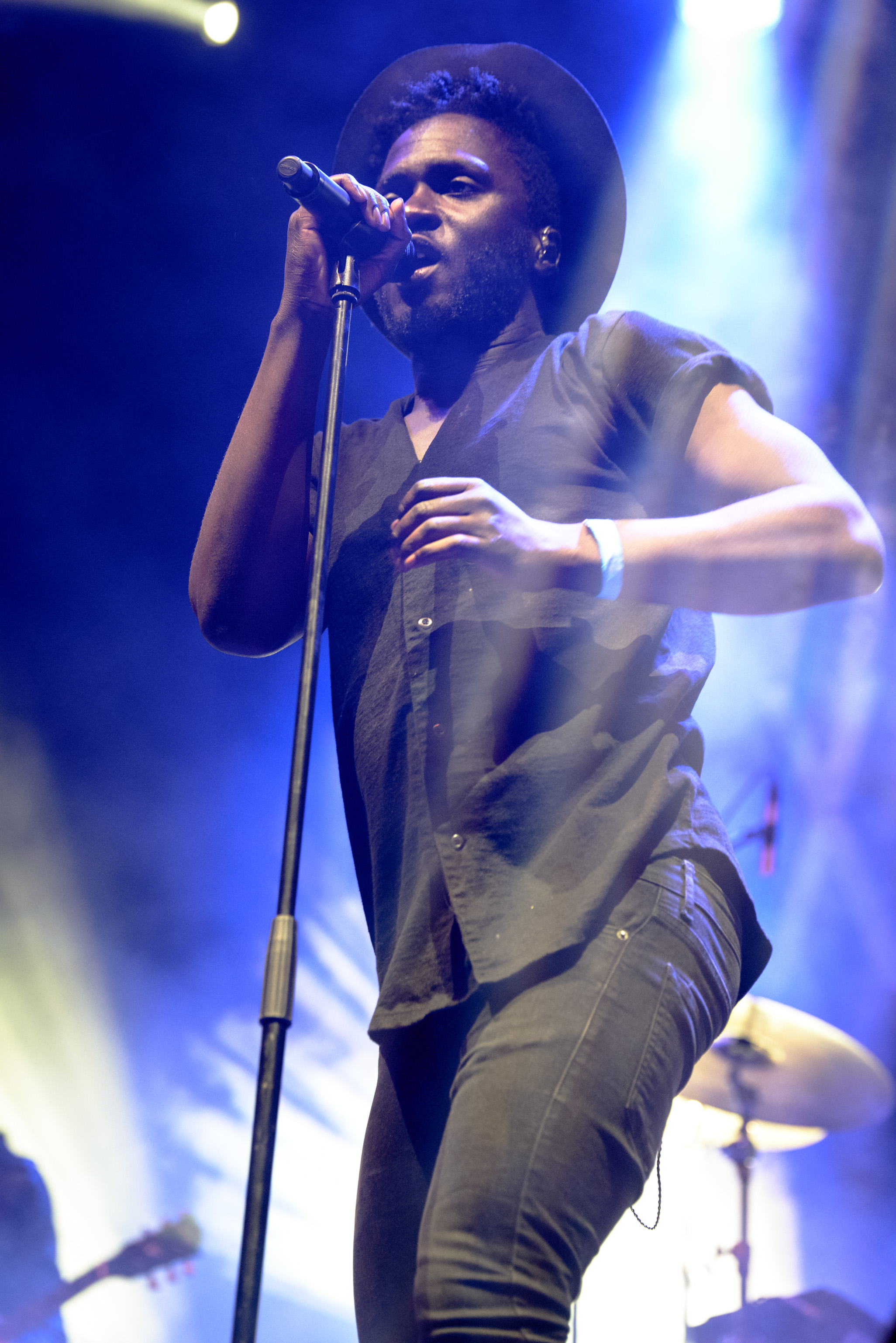 Kwabs Live @ Utopia Island 2015